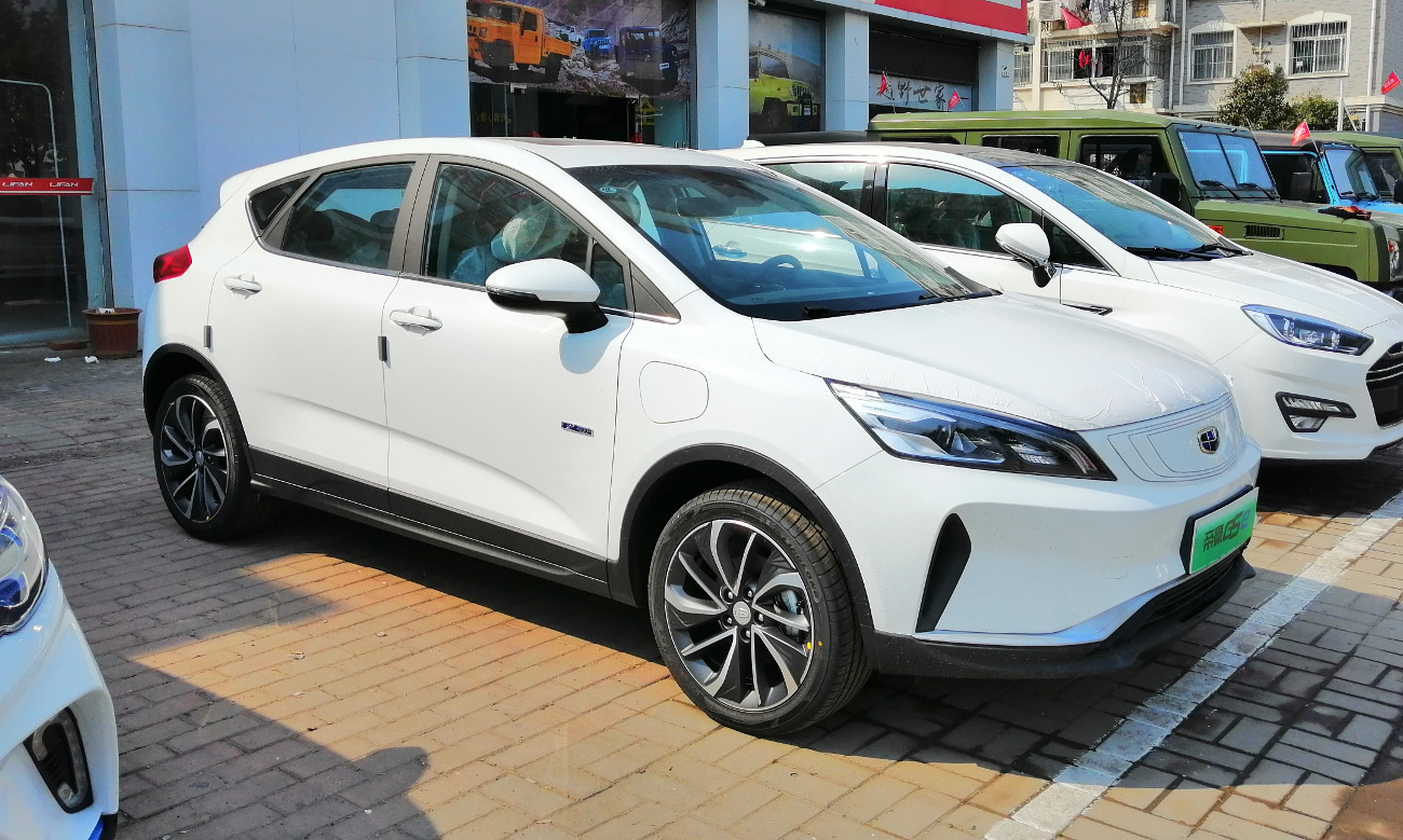 Geely Emgrand GSe photographed in Hefei, Anhui province, China.